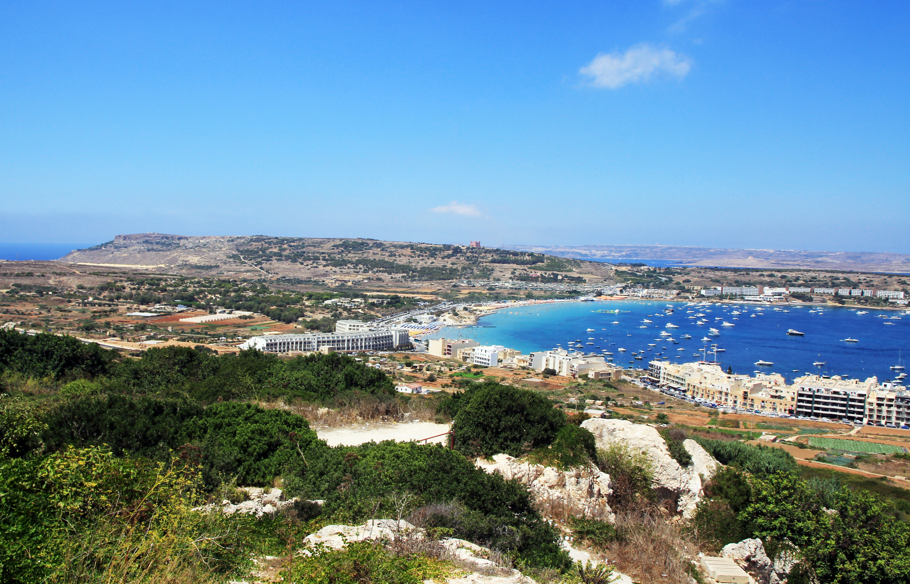 View on Mellieħa Bay from west side of town Mellieħa, Malta